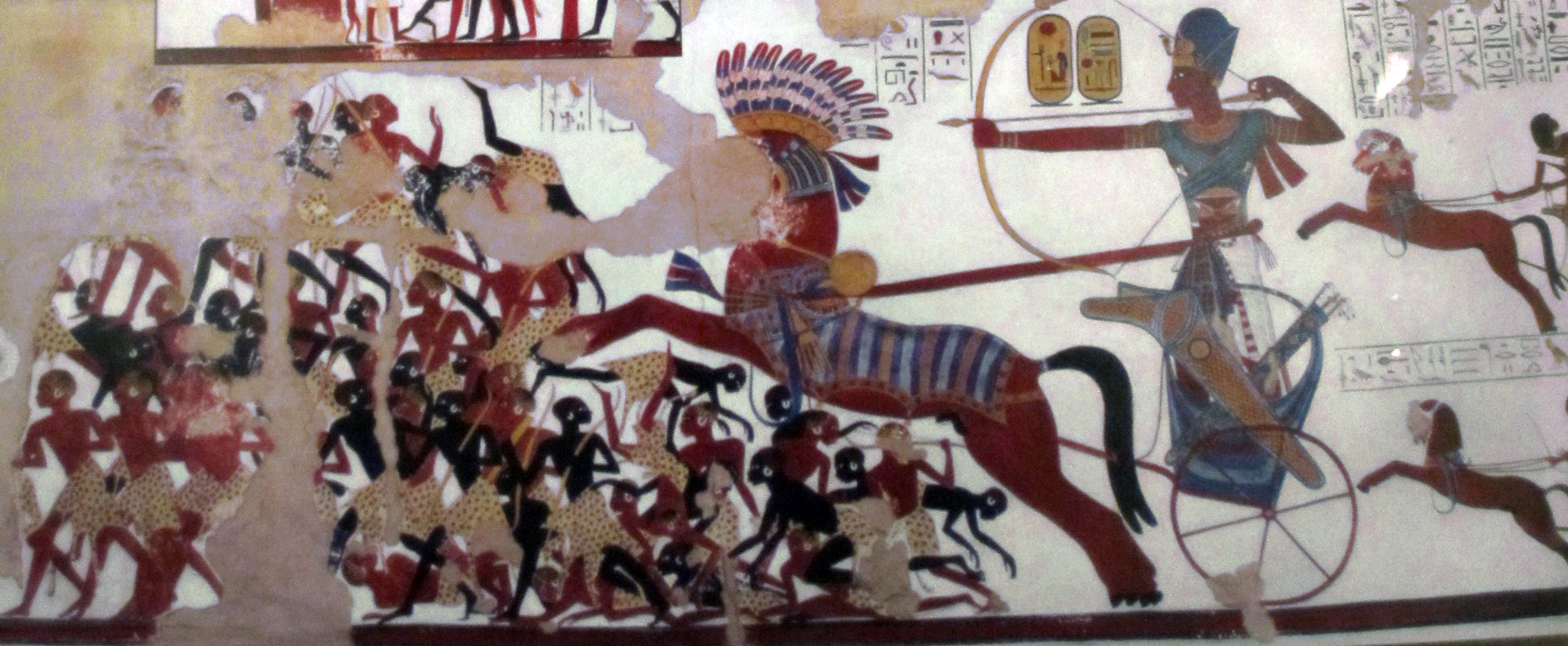 Rod Dailey took this photo with a Canon, Powershot SD1400IS camera at the Oriental Institute, Univ. of Chicago. Photography is allowed there at all times. This photo is from Ramses II's temple of Beit el-Wali in Northern Nubia.